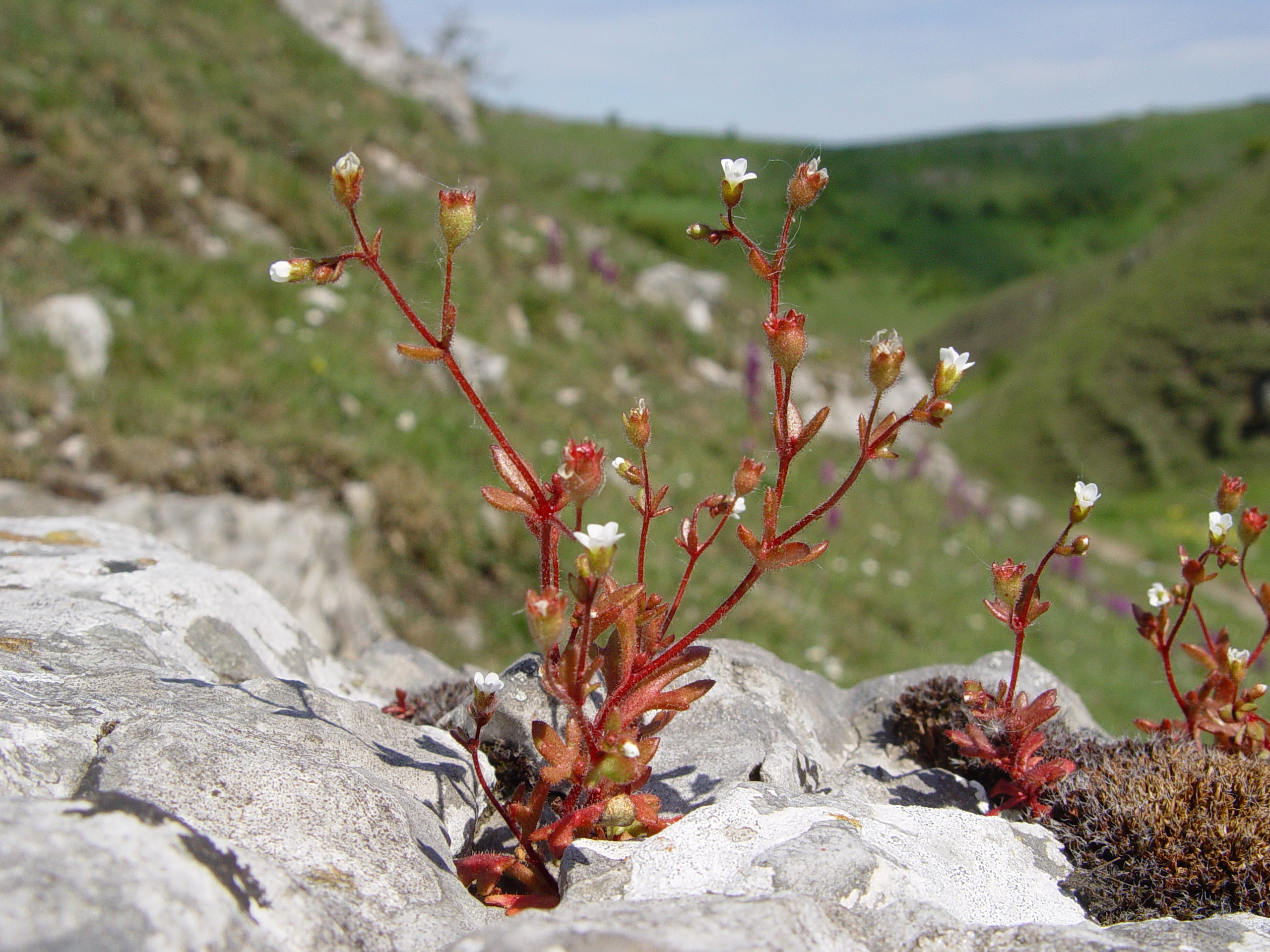 Saxifrage tridactylites (Rue-leaved Saxifrage) at the junction of Tansley Dale/Cressbrook Dale in Derbyshire, England. Photo taken in May 2005 for a project to revise and publish a new edition of The Flora of Derbyshire. The plant is growing on a dry limestone rock outcrop in the Derbyshire Peak District. The blooms of Early Purple Orchids can just be made out in the background. The plant itself is covered with sticky glands, so readily picks up fibres or other fine particles, such a wind-blown seeds, as can be seen in this image. OSGB coordinates: SK171747